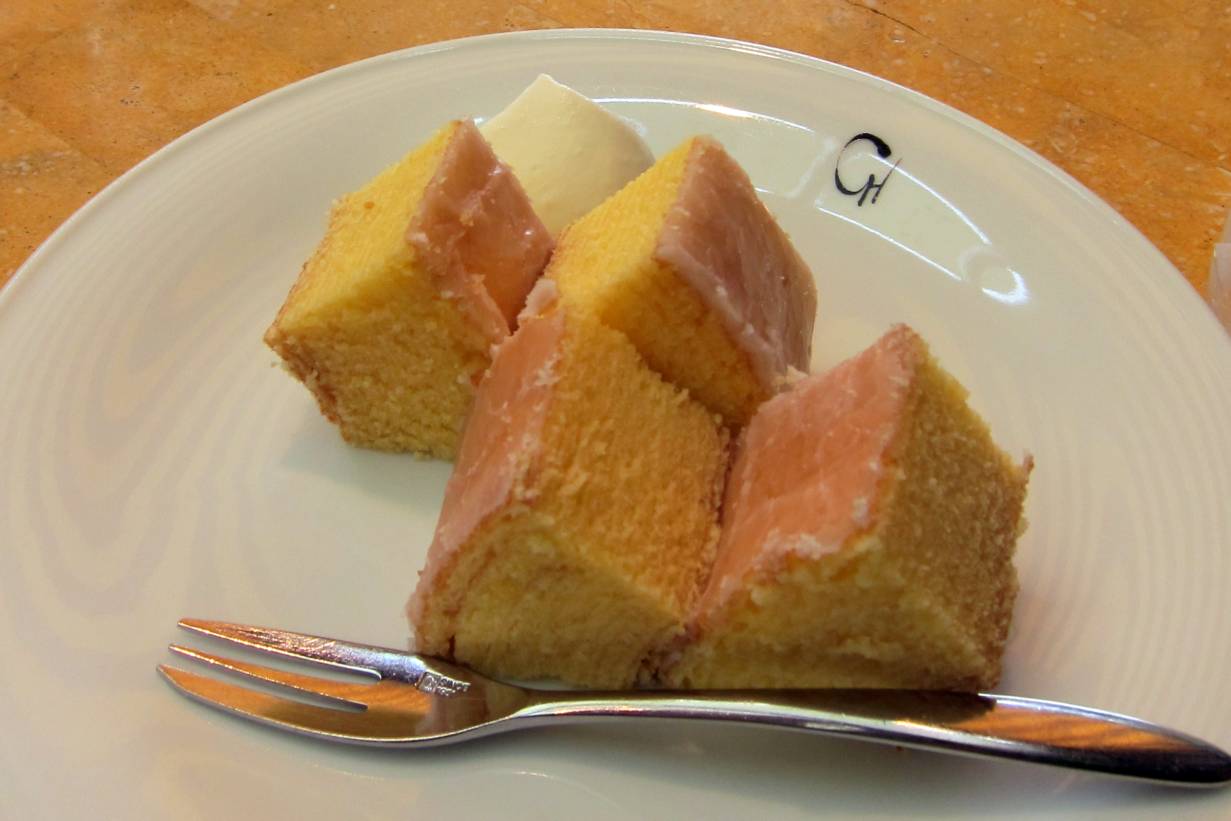 CLUB HARIE (クラブハリエ), Omihachiman, Shiga prefecture, Japan